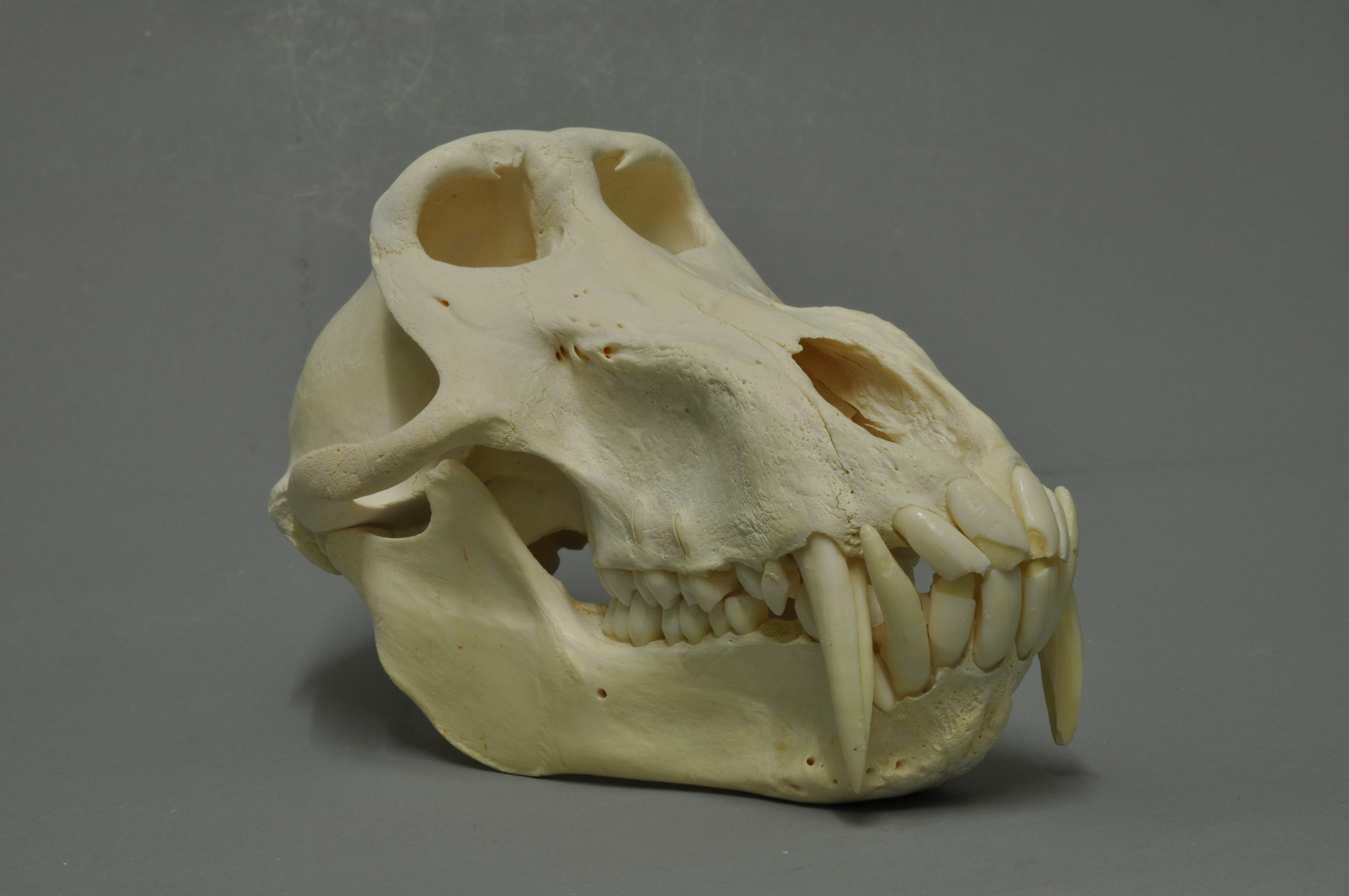 Chacma baboon Papio ursinus, skull, Coll. Museum Wiesbaden